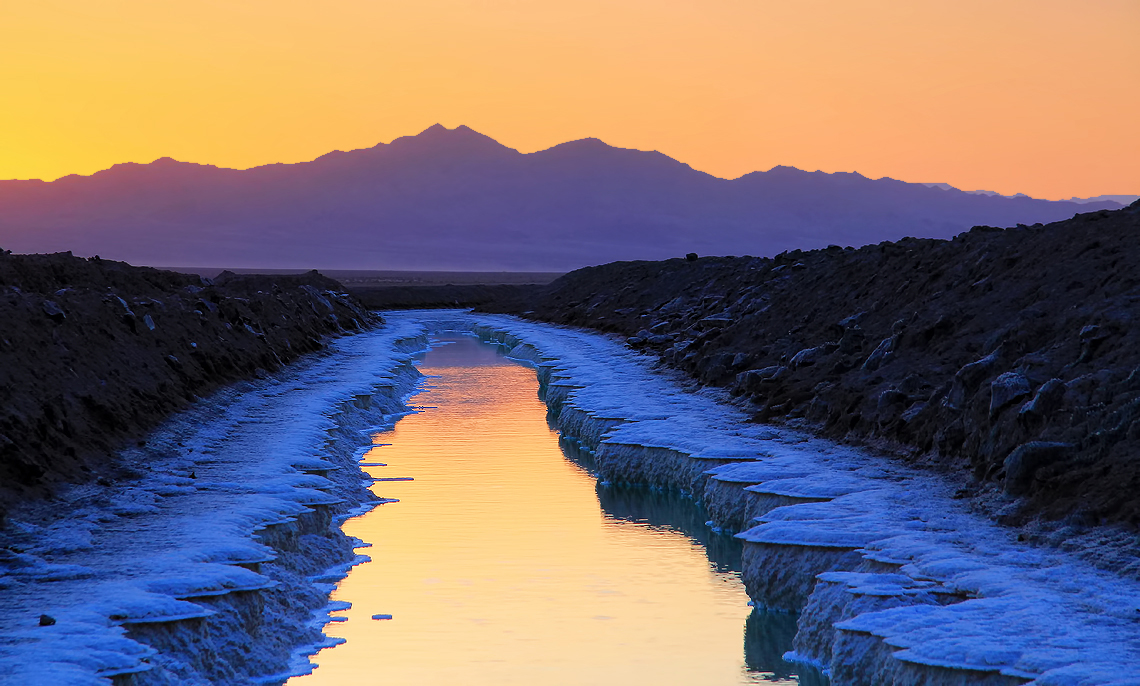 The Salt Ponds of Amboy at Sunset